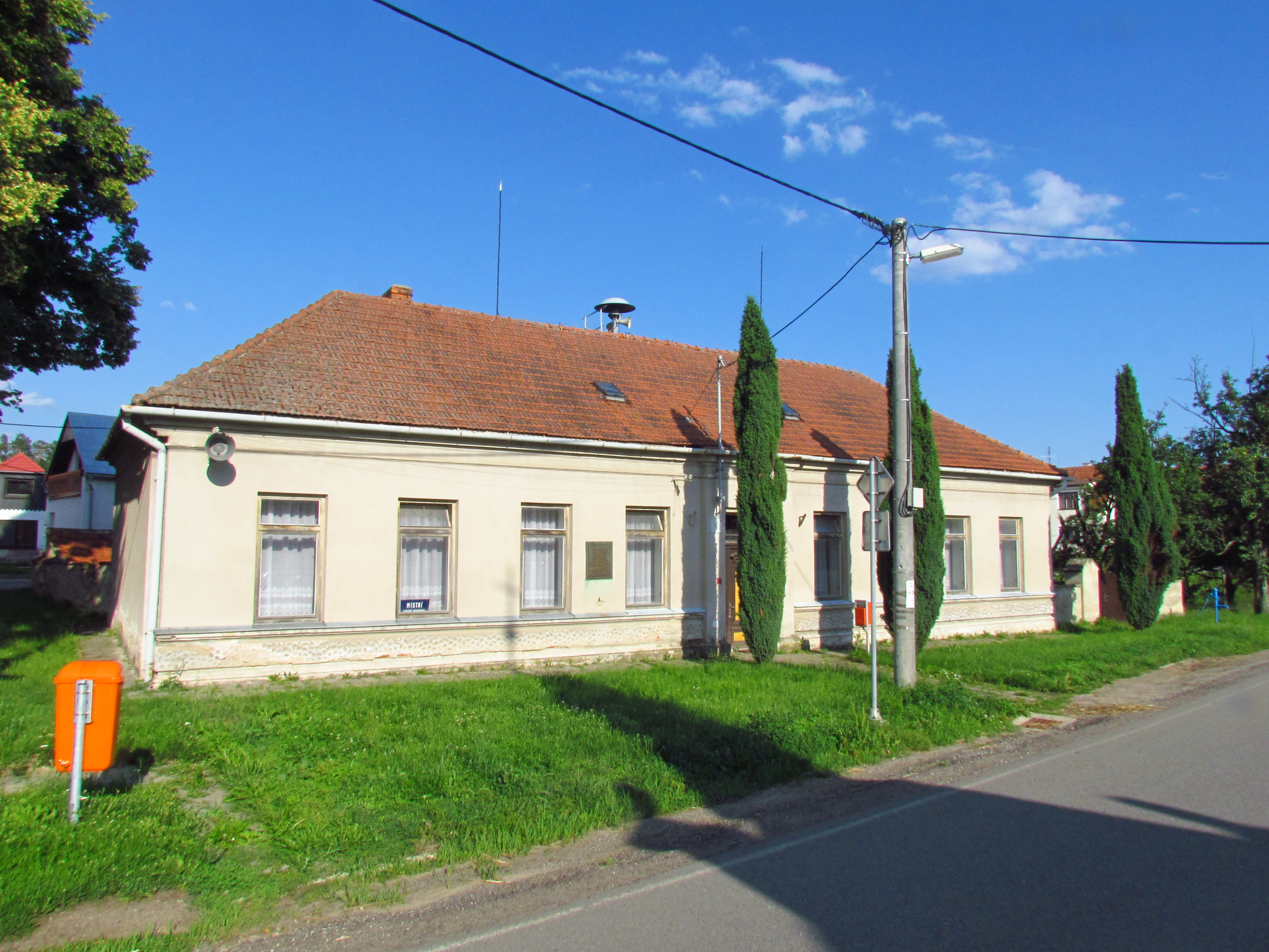 Elementary school of Vítězslav Nezval in Šemíkovice, Třebíč District.